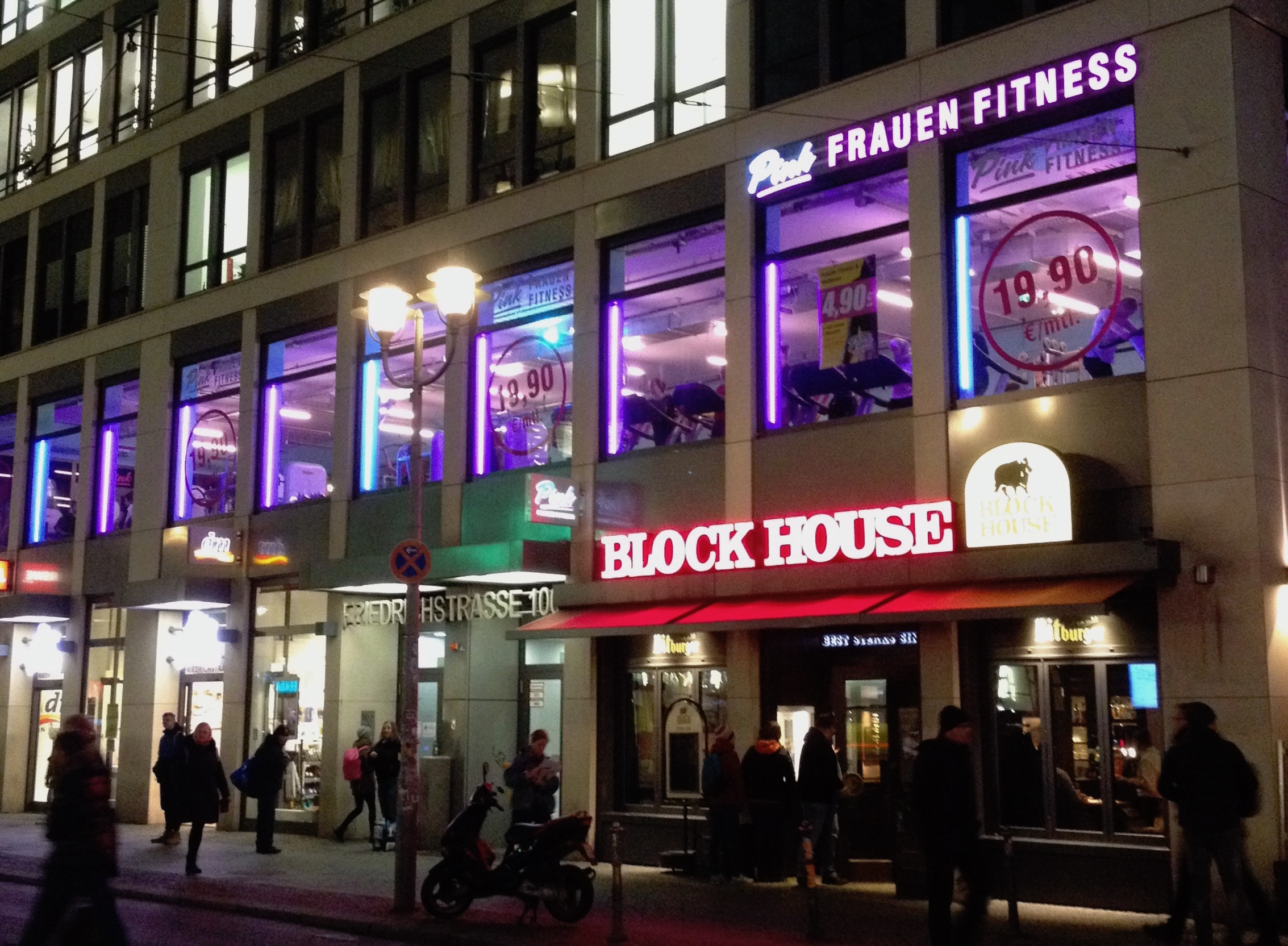 Gym in Berlin